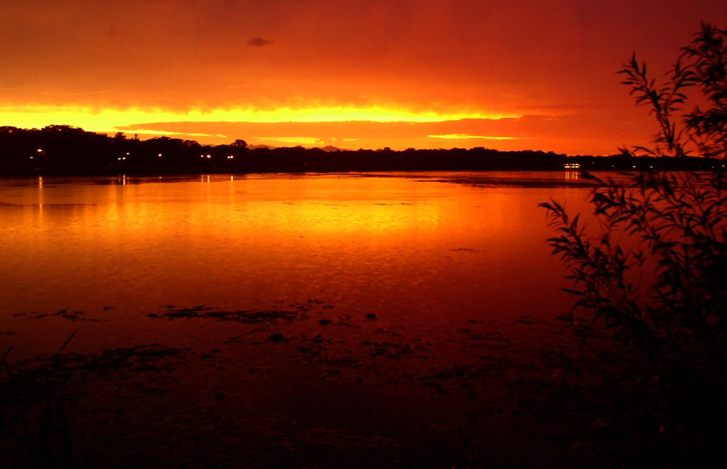 Sunset over Lake Phalen, Keller-Phalen Regional Park, St. Paul, Minnesota, USA